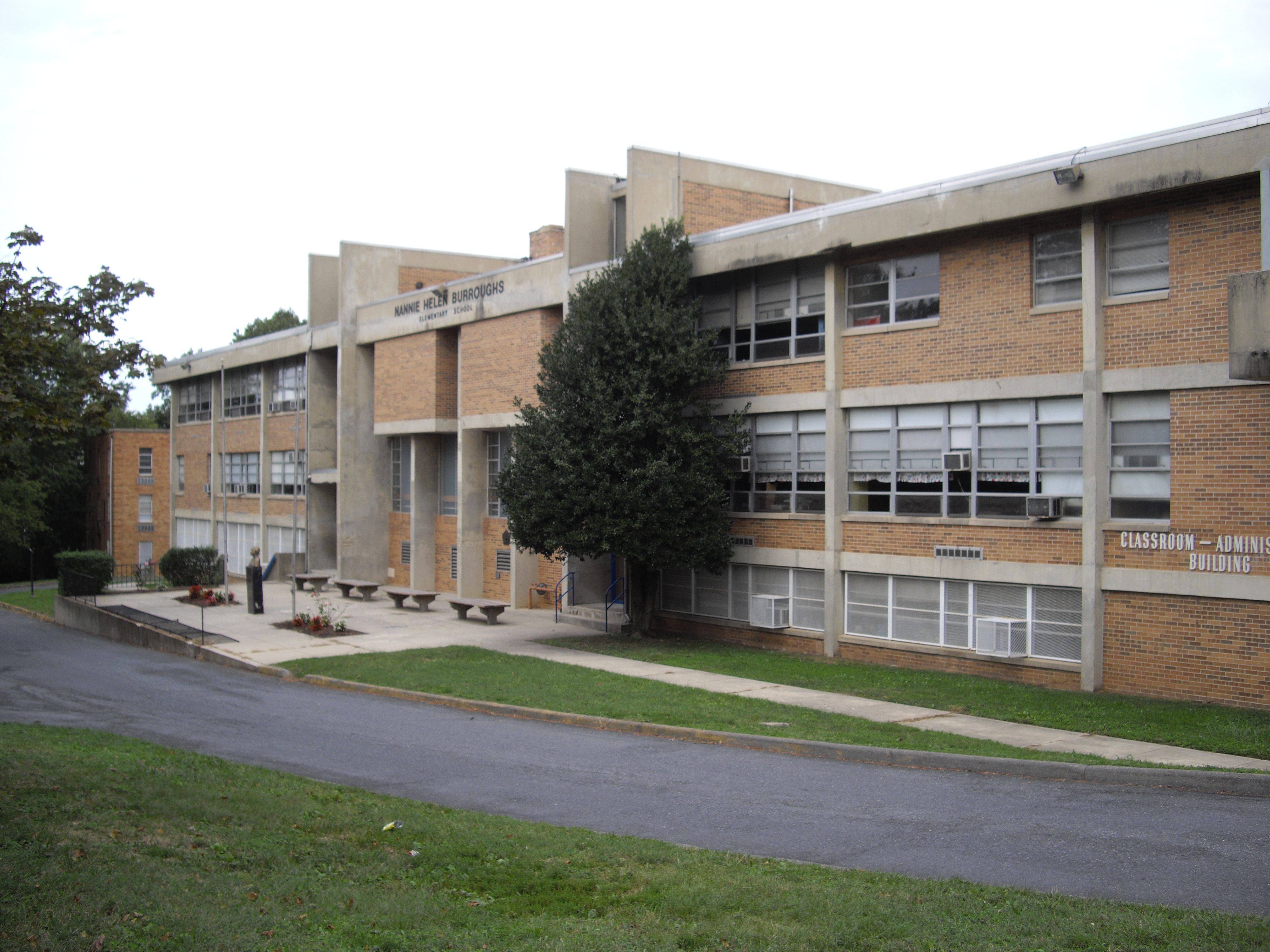 National Training School for Women and Girls, Washington DC. This is the 1971, school building, not the landmarked 1928 building.